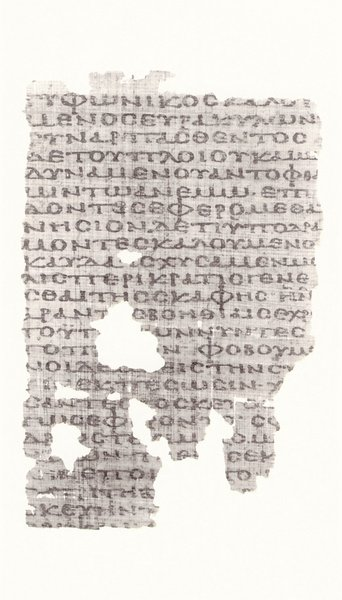 Picture of Papyrus 74 (Gregory-Aland numerotation), also called Papyrus Bodmer XVII (numerotation of the Bodmer Papyri collection). From the 7th century.